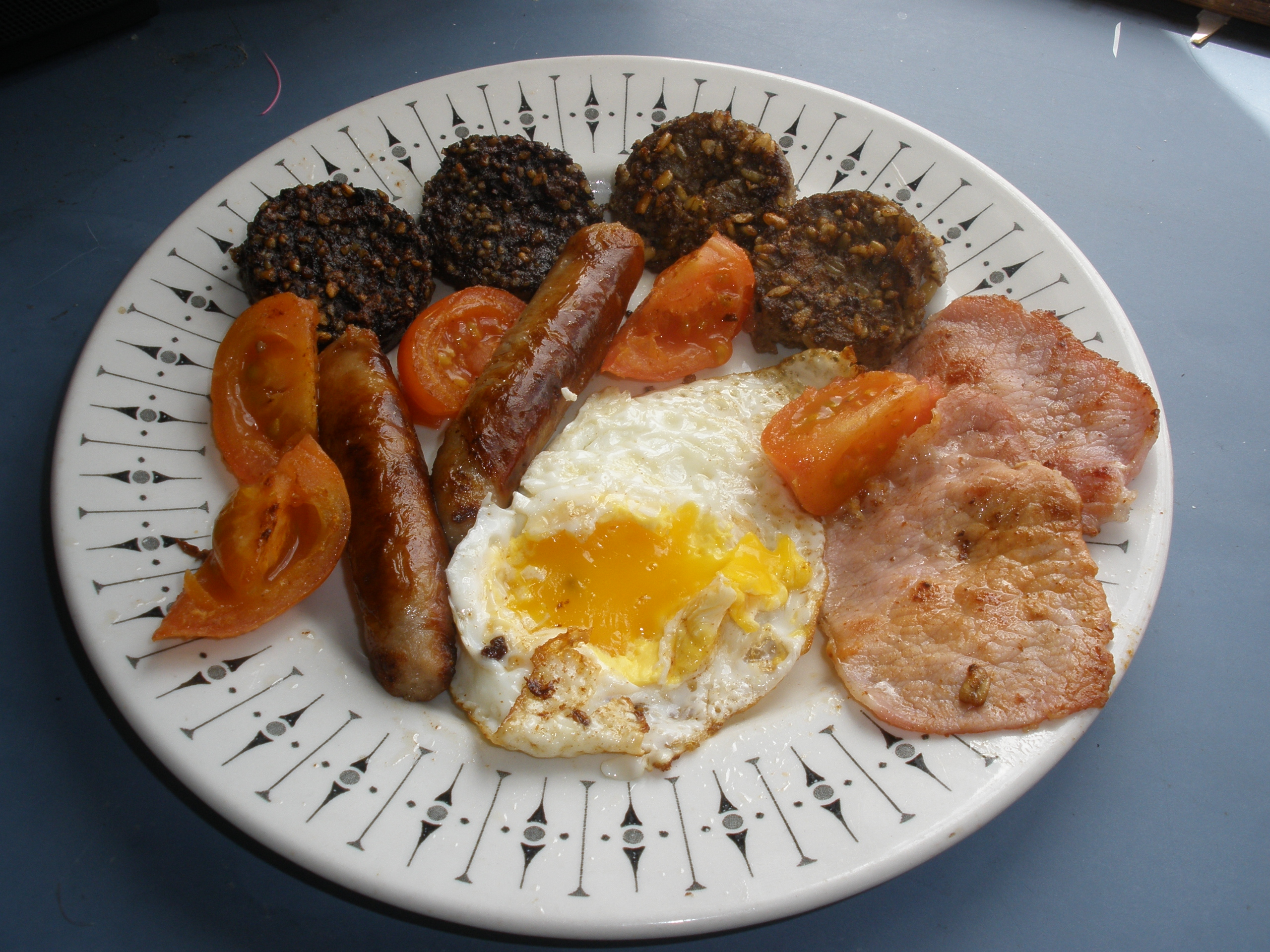 A cooked Irish breakfast including a rasher, pork breakfast sausages, slices of black pudding (top left), slices of white pudding (top right), a fried hen's egg, and slices of tomato.